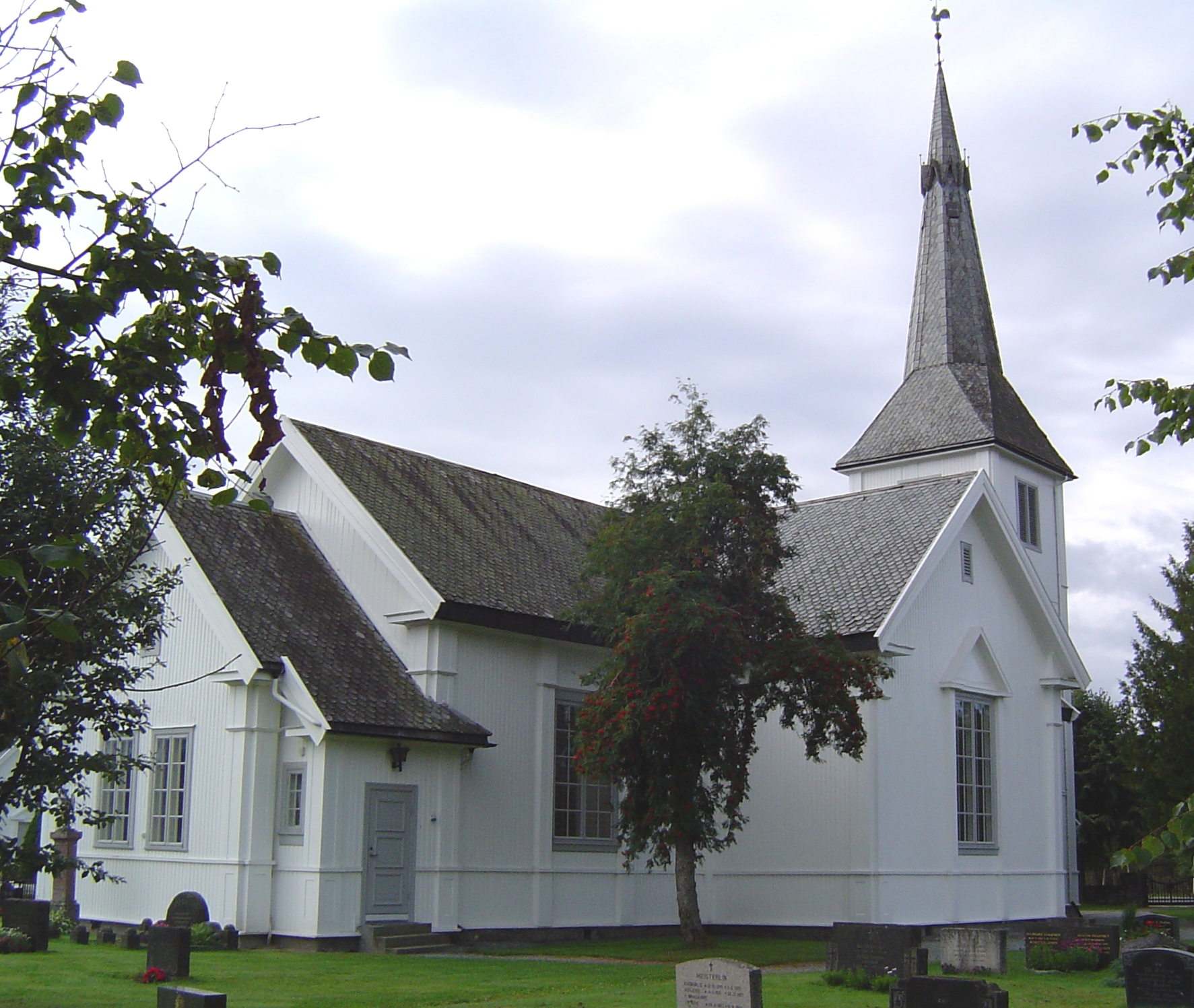 Lunder kirke (Lunder church, Sokna, Ringerike, Buskerud, Norway). Photo taken September 11. 2005. I've taken the photo myself and I'm now releasing it into the Public Domain.